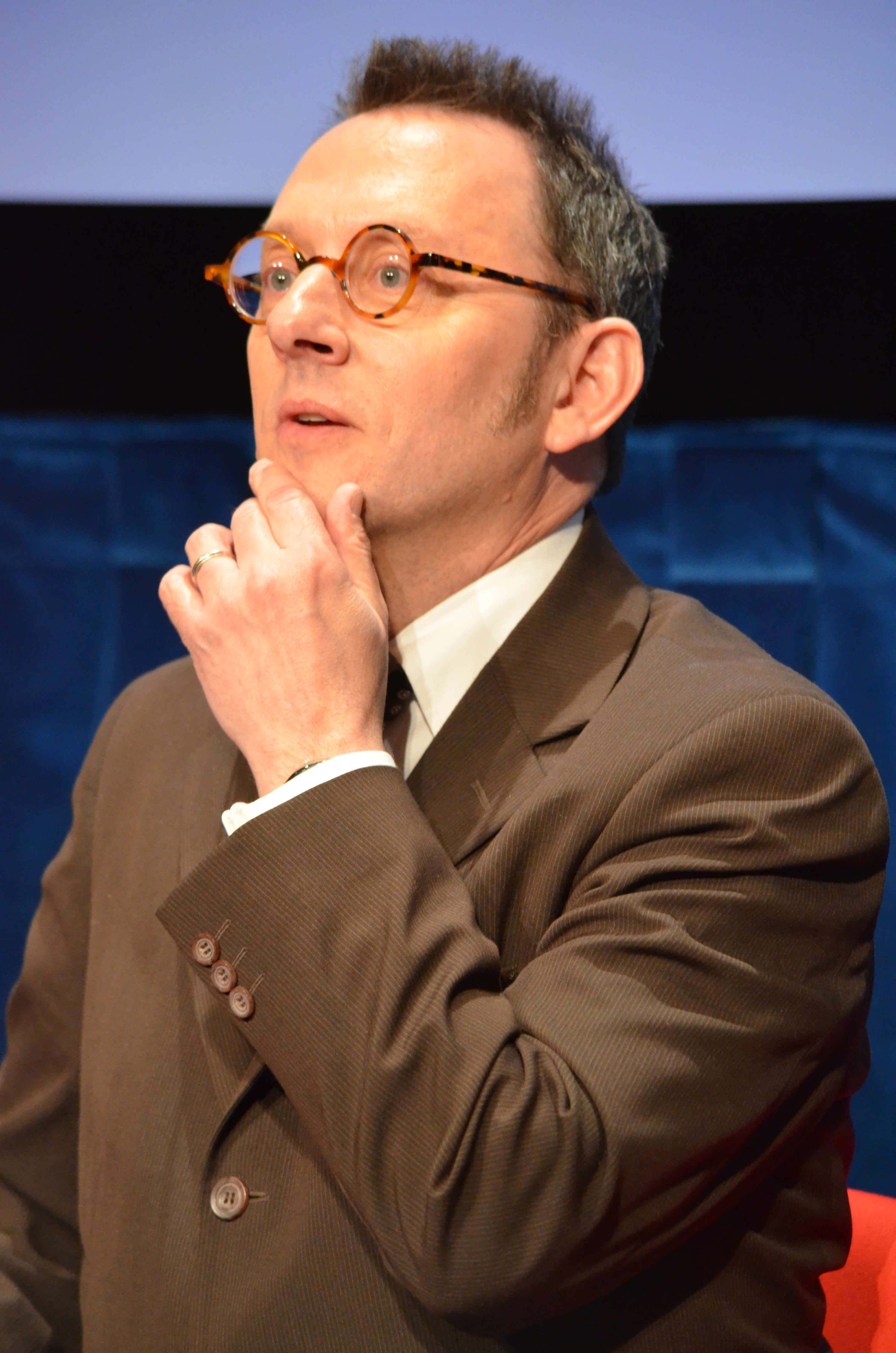 Michael Emerson on Onstage at Paley: Person of Interest